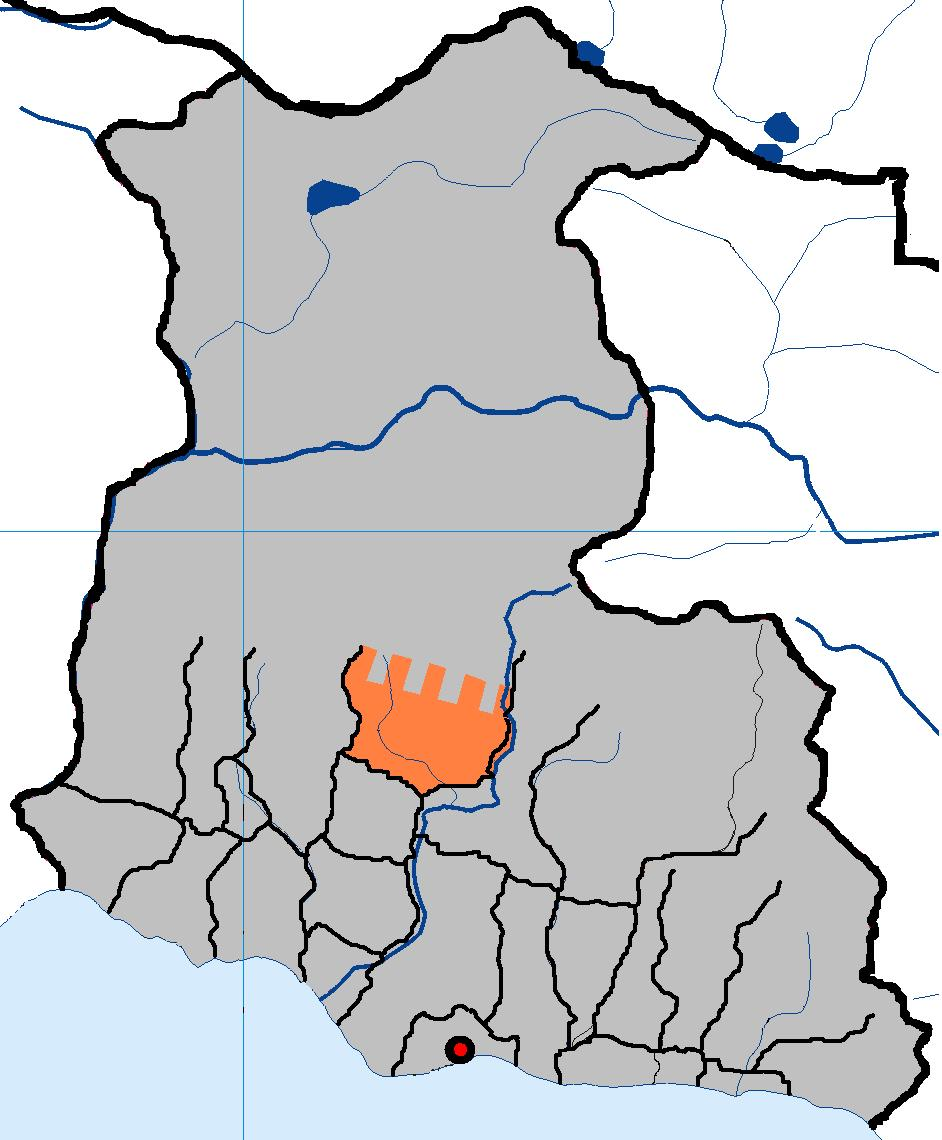 Map showing the location of the village Khuap in Abkhazia.